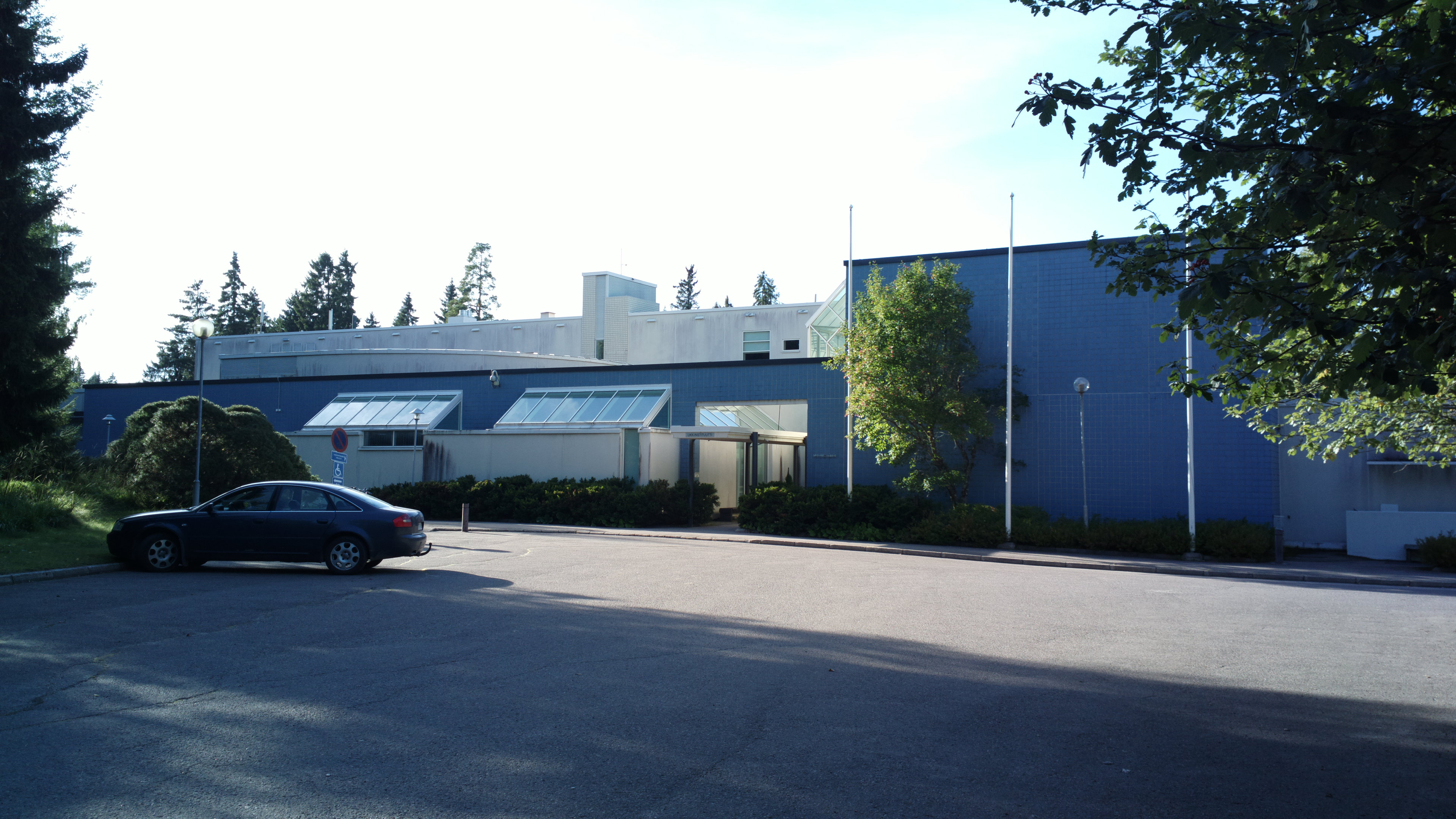 UKK-Institute in Kauppi Tampere